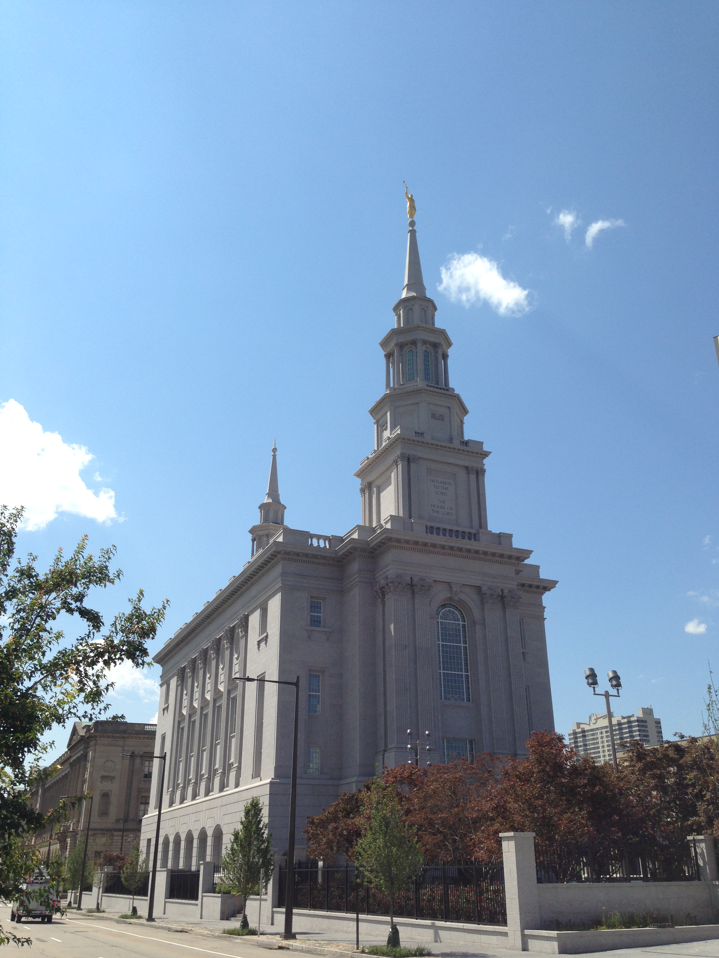 East and south facades of the Philadelphia Pennsylvania Temple in July 2016, just prior to its dedication.